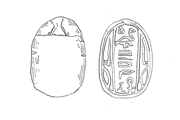 Drawing of an ancient Egyptian scarab seal bearing the cartouche of pharaoh Shenshek of the 14th Dynasty. Based on a drawing by Manfred Bietak ("Egypt and Canaan during the Middle Bronze Age", BASOR 281 (1991) fig 18). Original scarab is housed at the Cairo Museum (inv. no.TD-6160[50])